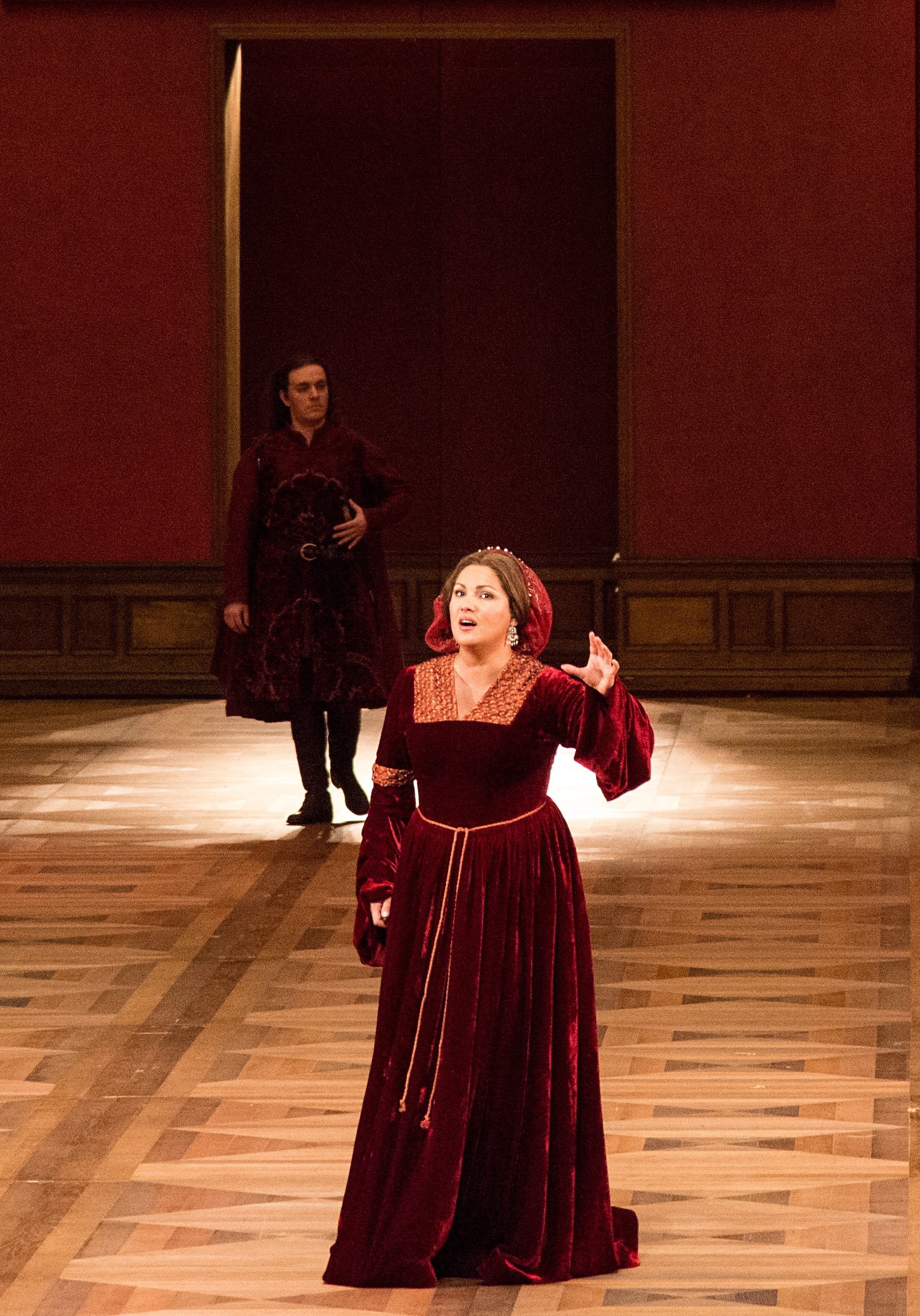 Il Trovatore, Salzburg Festival 2014 with Anna Netrebko (Leonora)